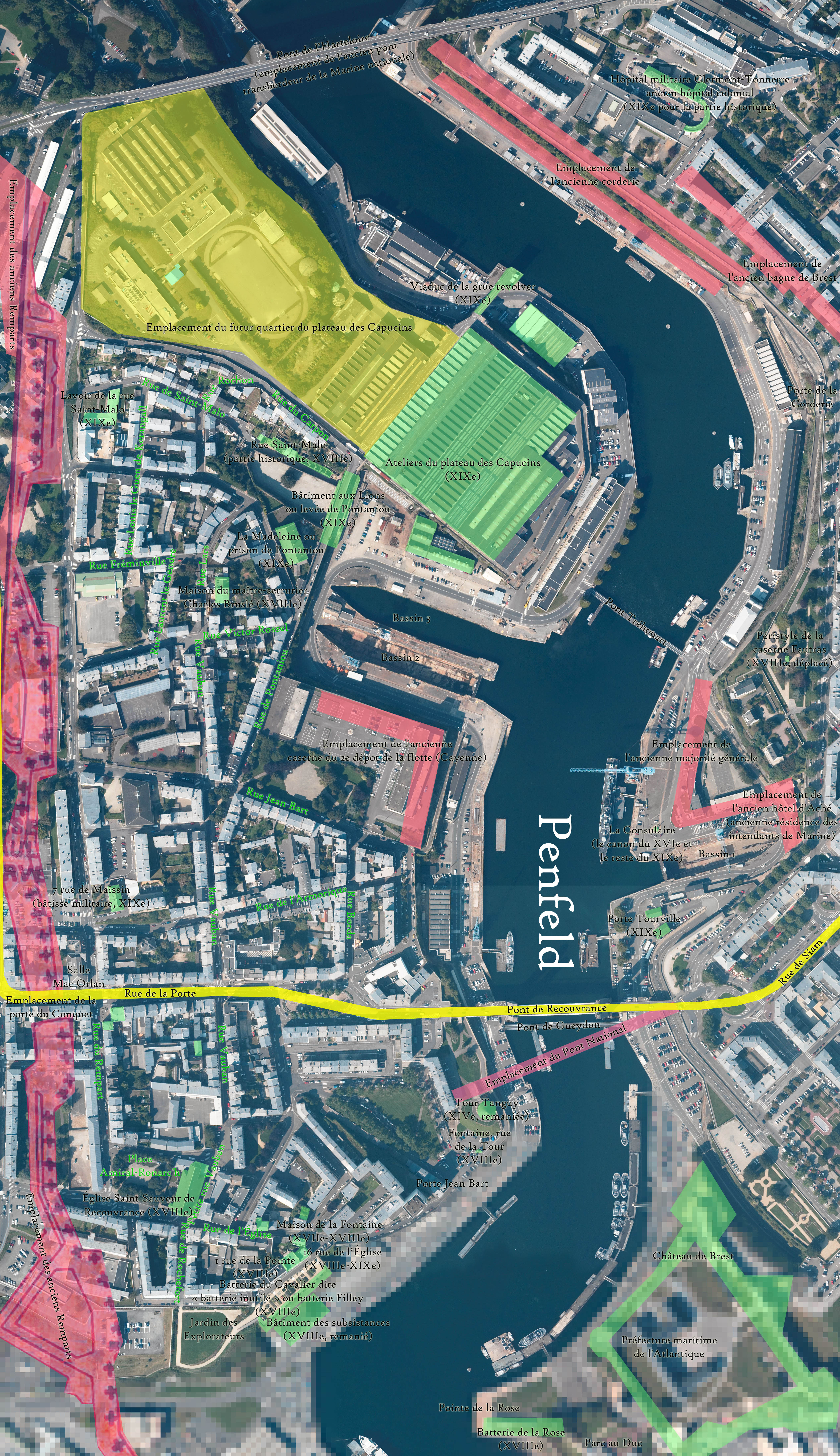 Recouvrance district in Brest, France